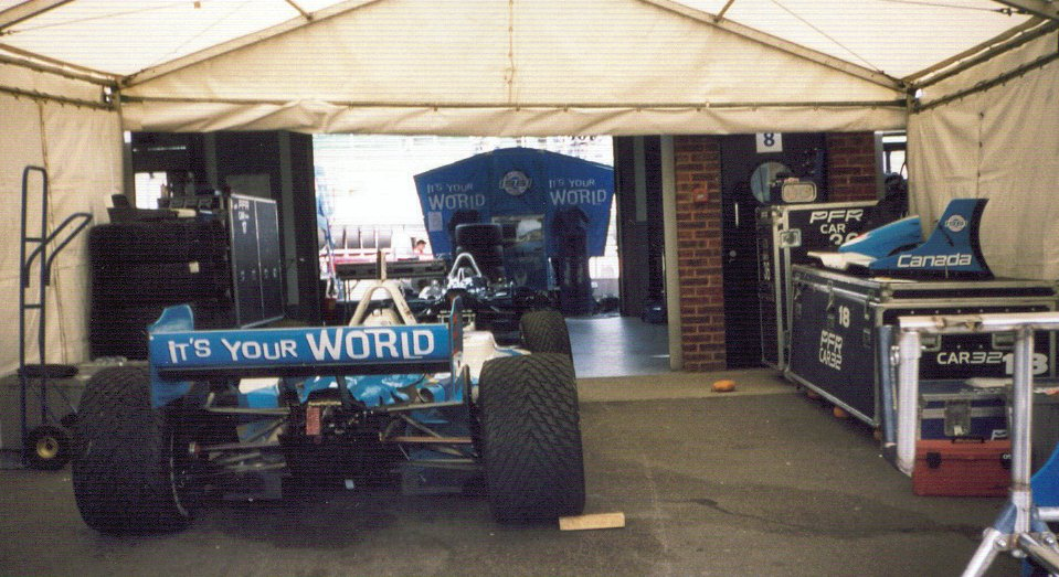 Champcar team's garage area, Brands Hatch 2003.